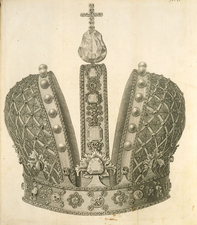 Great Imperial Crown of empress Anna of Russia, made in 1730-1731